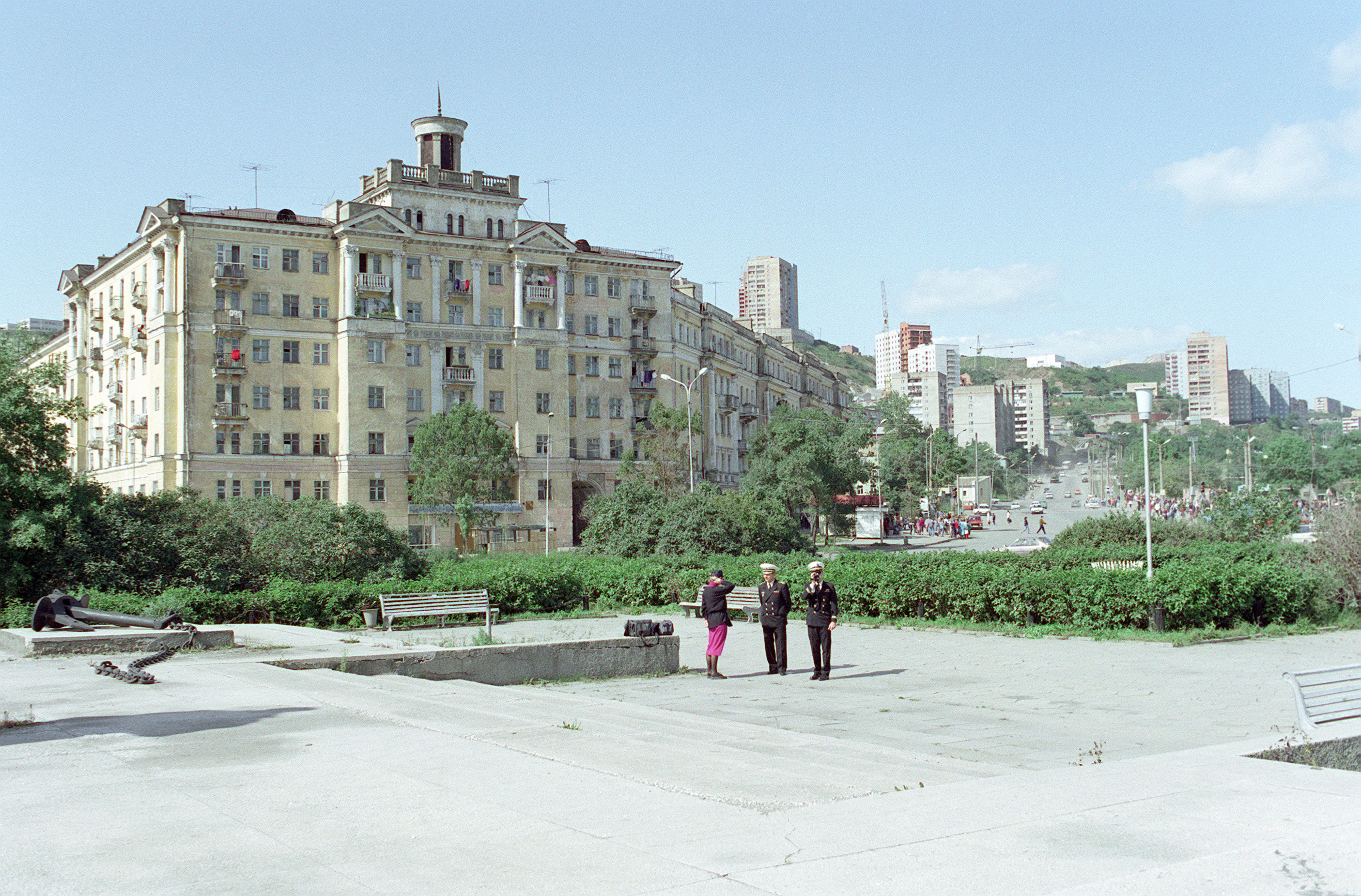 An overview of Revolution Square, with the Russian Far East Province government headquarters building, unofficially known as the White House.